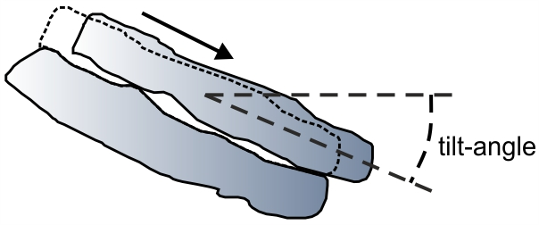 tilttest.jpg - H.R.G.K. Hack - 2011